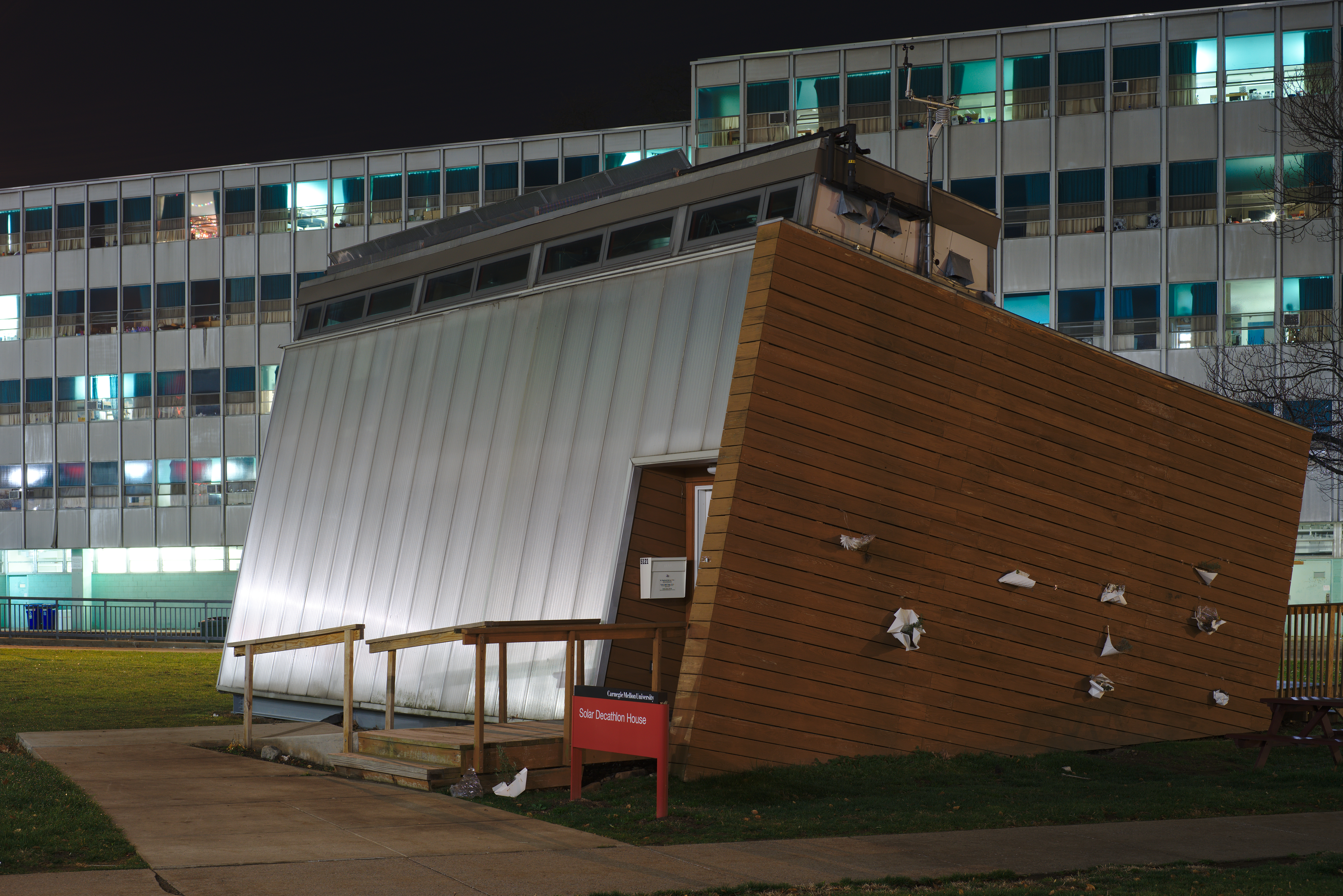 The Solar Decathlon building at Carnegie Mellon University in Pittsburgh. It is an entrant in the 2005 Solar Decathlon.